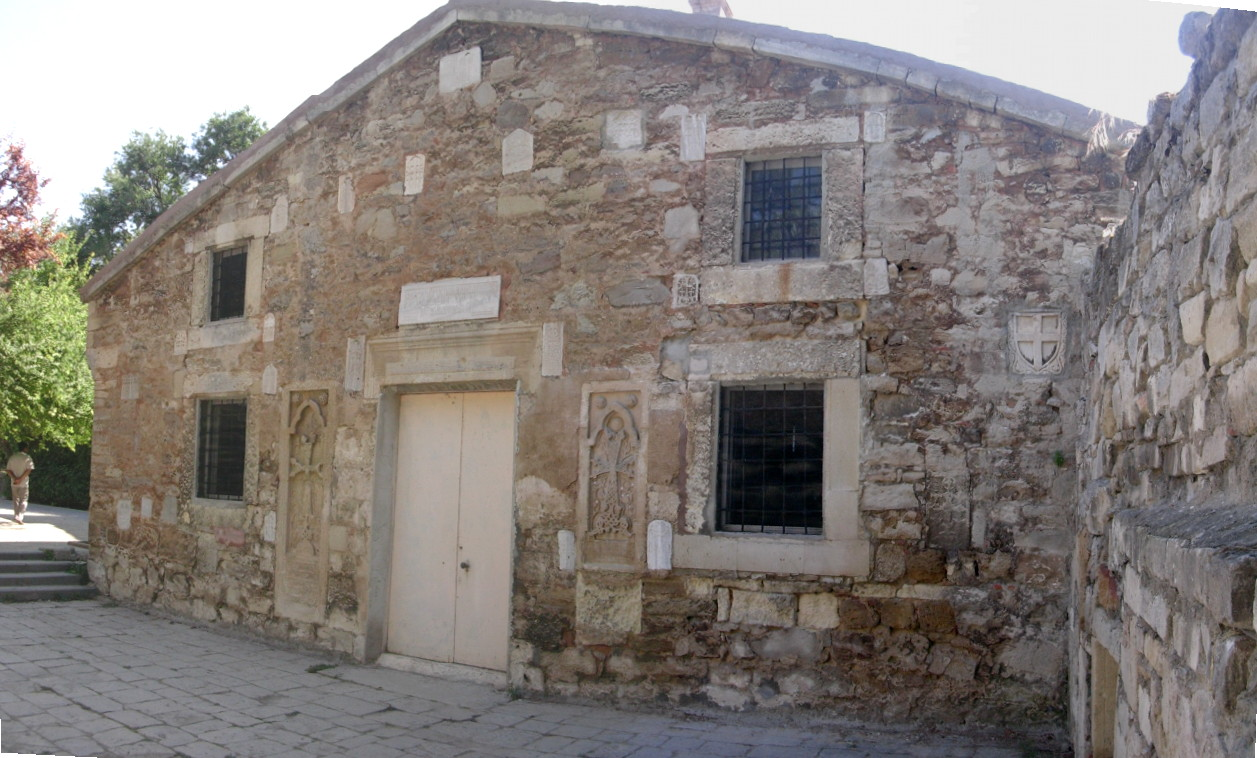 Armenian Church of St. Serge (Surb Sarkis), XIV c., Theodosia, Crimea